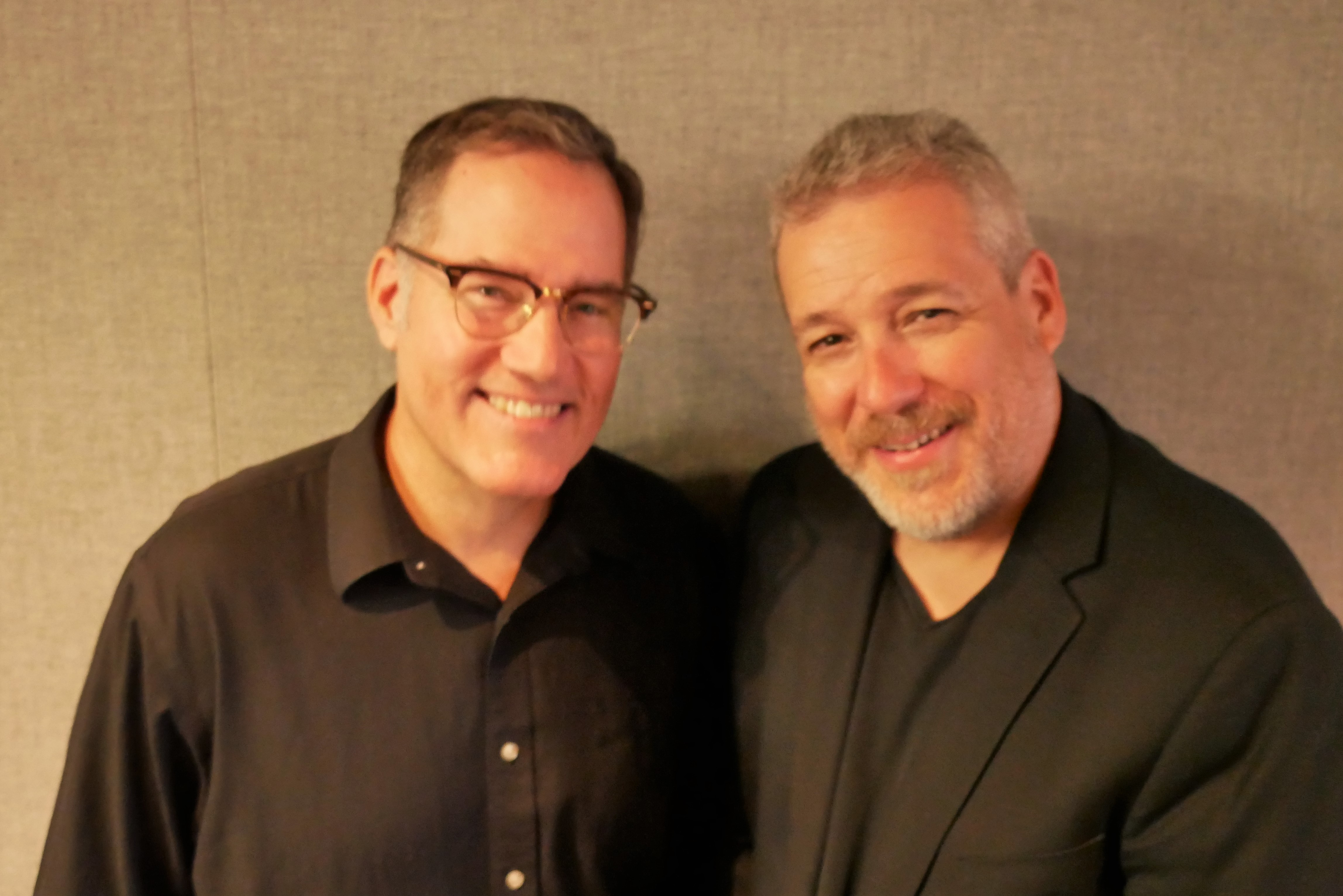 Two men - head and shoulders image on grey background